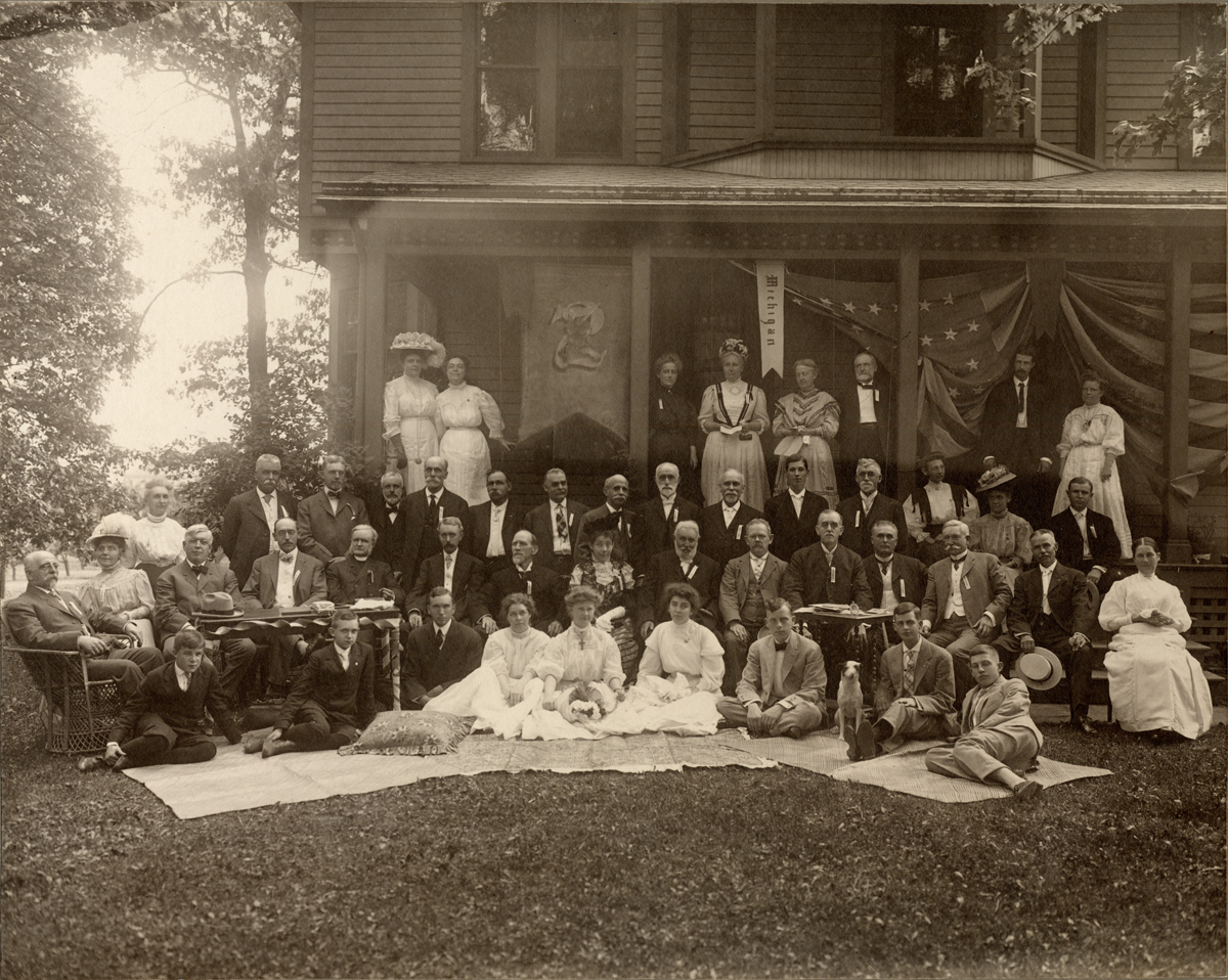 The building is now part of the Ann Arbor City Club (formerly the Ann Arbor Women's City Club). JUNE 18, 1907: 35th REUNION OF THE UNIVERSITY OF MICHIGAN CLASS OF 1872, at the Washtenaw Avenue home of fruit farmer and land developer Evart A. Scott. Seated right in the middle of those in the first row of chairs is Madelon Louisa Stockwell of Kalamazoo, who was the first female student admitted to the University of Michigan. (Her married name was Turner.) Also in the crowd was Prof. Horatio Nelson Chute, teacher of physics, who was hired at the Ann Arbor High School immediately after graduation, and was still teaching there in 1907. Dr. William James Herdman, famous Ann Arbor physician, also was present for this gathering. So was Professor Otto Klotz, Astronomer Royal of Canada, who supervised the laying of the first Pacific Ocean Cable, a project that took two years. (Klotz was married to a sister of Pauline Widenmann Kempf, wife of Reuben Kempf, of the Kempf House Museum in Ann Arbor.) The Scott house is now embedded in a wing of the Ann Arbor City Club (formerly the Ann Arbor Women's City Club). Nearby Scottwood Avenue bears the family name, and Austin was named for J. Austin Scott, father of Evart Scott.